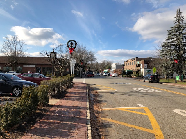 A picture of downtown Cresskill, New Jersey as seen from the main street of Union Avenue